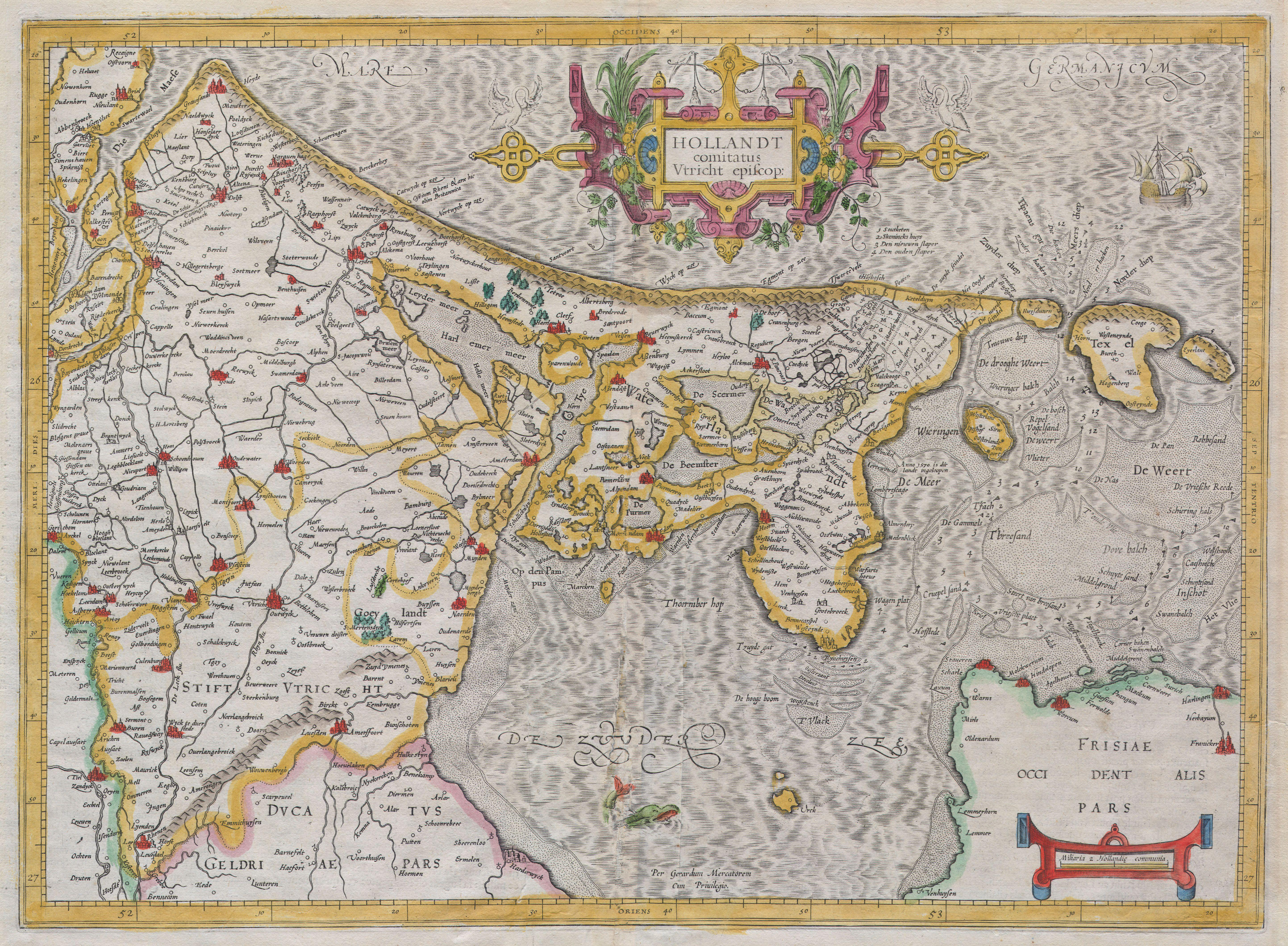 A rare and beautiful 1606 map of Holland ( Netherlands ) by Gerard Mercator. Amsterdam appears at the center and the map extends south as far as Harderwyck and west as far as Rhenen and Rotterdam. The Zuyder Zee, now a damned inland waterway, occupied the lower center of the map and a sea monster lying in wait for unwary ships – one of which sails in at the top right of the map. Elaborate title cartouche top center.